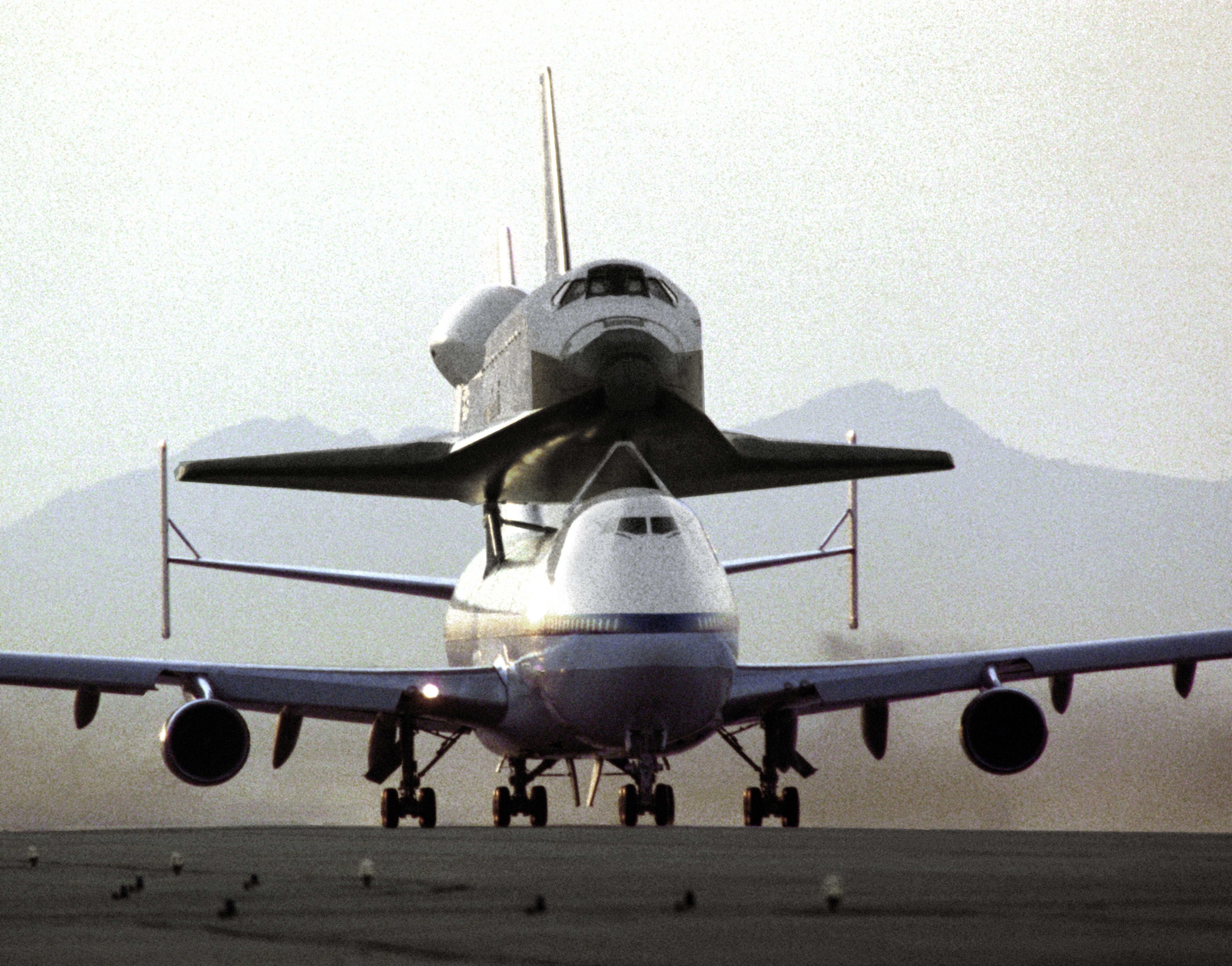 NASA's 747 Shuttle Carrier Aircraft No. 911, with the space shuttle orbiter Endeavour securely mounted atop its fuselage, taxies to the runway to begin the ferry flight from Rockwell's Plant 42 at Palmdale, California, where the orbiter was built, to the Kennedy Space Center, Florida. At Kennedy, the space vehicle was processed and launched on orbital mission STS-49, which landed at NASA's Ames-Dryden Flight Research Facility (later redesignated Dryden Flight Research Center), Edwards, California, May 16 1992. NASA 911, the second modified 747 that went into service in November 1990, has special support struts atop the fuselage and internal strengthening to accommodate the added weight of the orbiters.